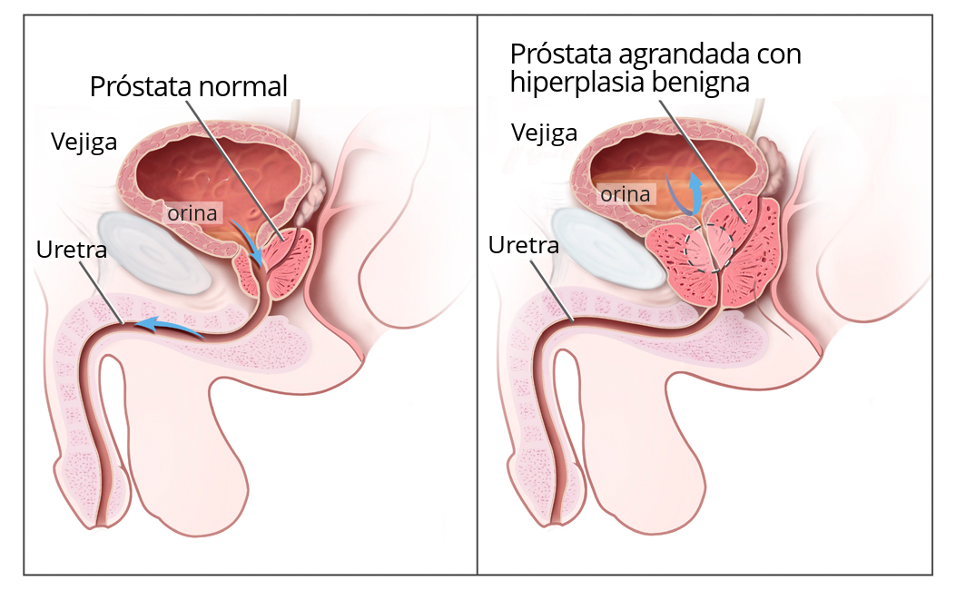 Two-panel drawing showing normal male reproductive and urinary anatomy and benign prostatic hyperplasia (BPH). Panel on the left shows the normal prostate and flow of urine from the bladder through the urethra. Panel on the right shows an enlarged prostate pressing on the bladder and urethra, blocking the flow of urine.